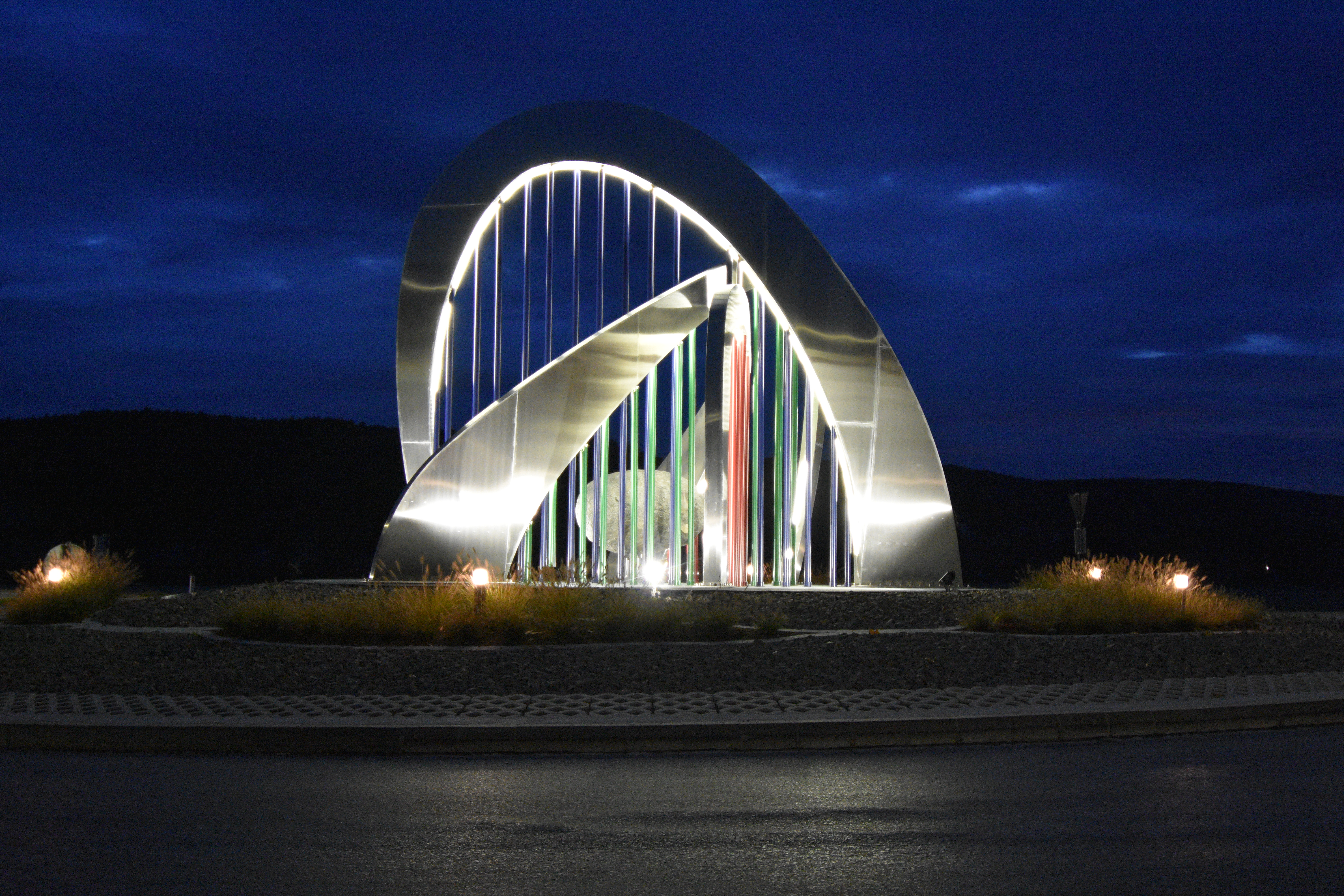 Sebersdorf